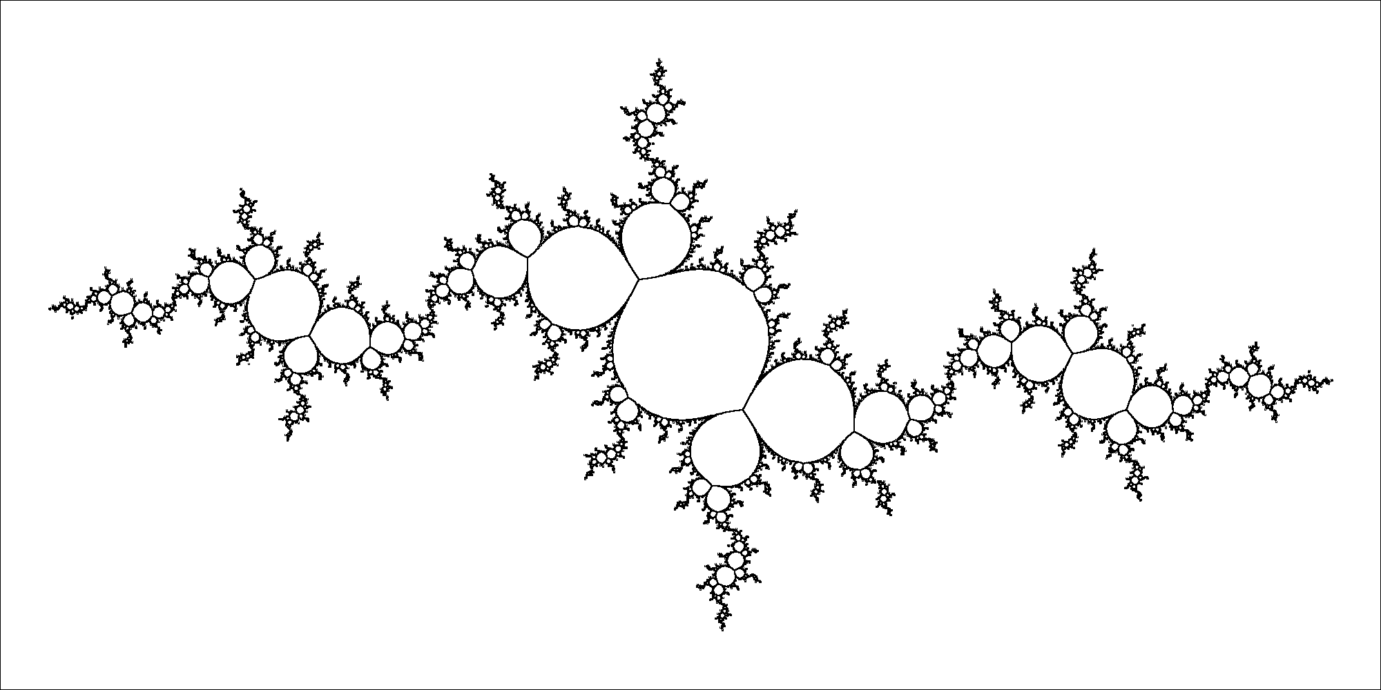 parabolic julia set for parameter c = e 2 π i 3 4 − 1 = − 1.125 + 0.21650635094611 ∗ i {\displaystyle c={\frac {e^{\tfrac {2\pi i}{3 }{4 -1=-1.125+0.21650635094611*i} . It is a root point between two Mandelbrot set components : period 2 period 6 components with adress : 1 → 1 / 2 2 → 1 / 3 6 {\displaystyle 1\xrightarrow {1/2} 2\xrightarrow {1/3} 6} . "Julia set ... showing the six rays landing on a period two parabolic orbit. The associated orbit portrait has characteristic arc I = (22/63, 25/63) and valence v = 3 rays per orbit point." [1].